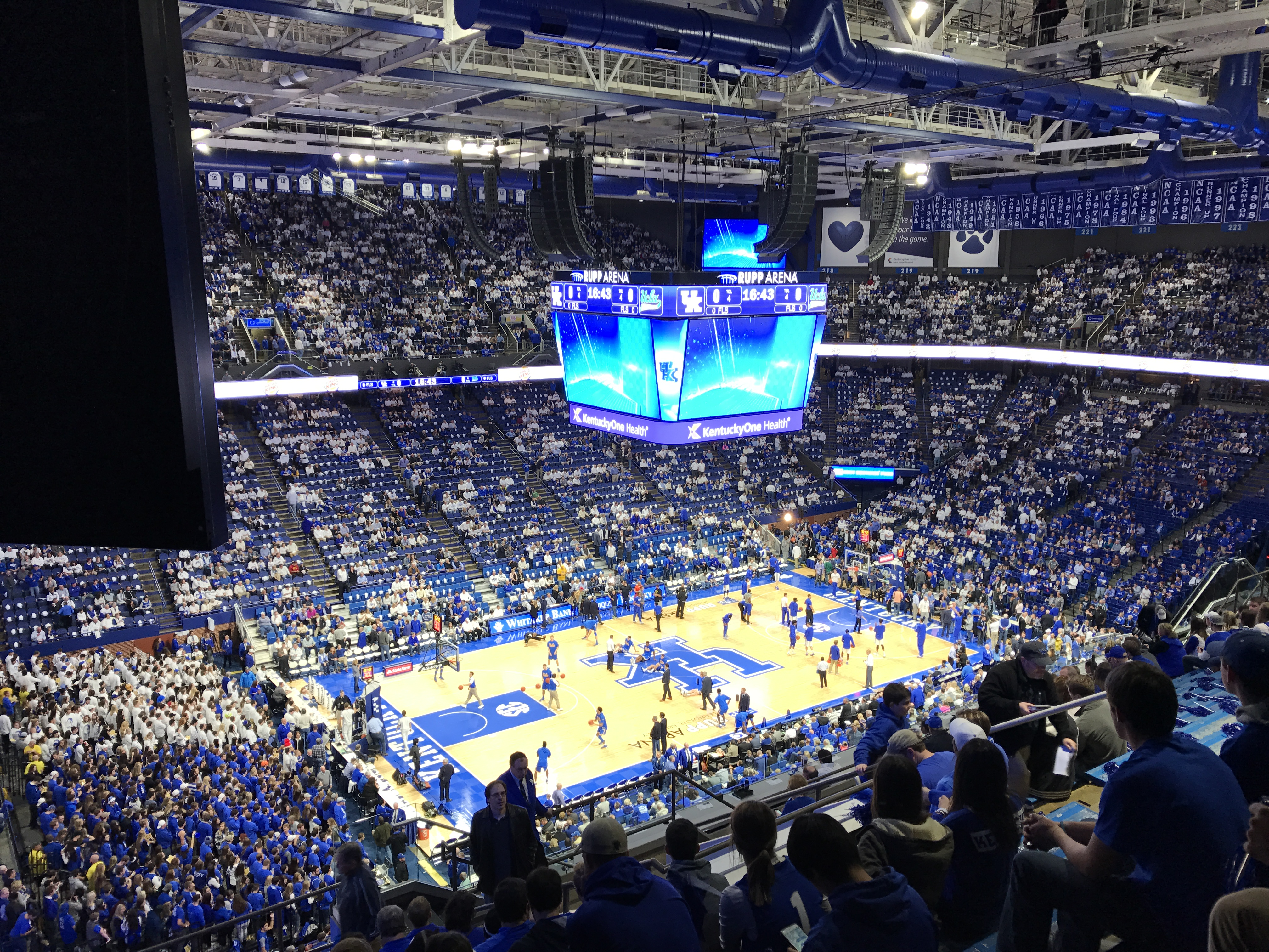 Pregame warm-ups of UCLA v. UK at Rupp Arena on 12/03/16. Wide-angle shot shows lower and upper-level seating, and the new center-hung scoreboard named "LEXI"